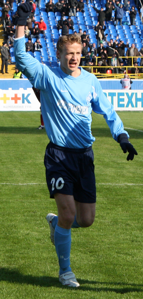 Jiří Jarošík in action for FC Krylya Sovetov Samara